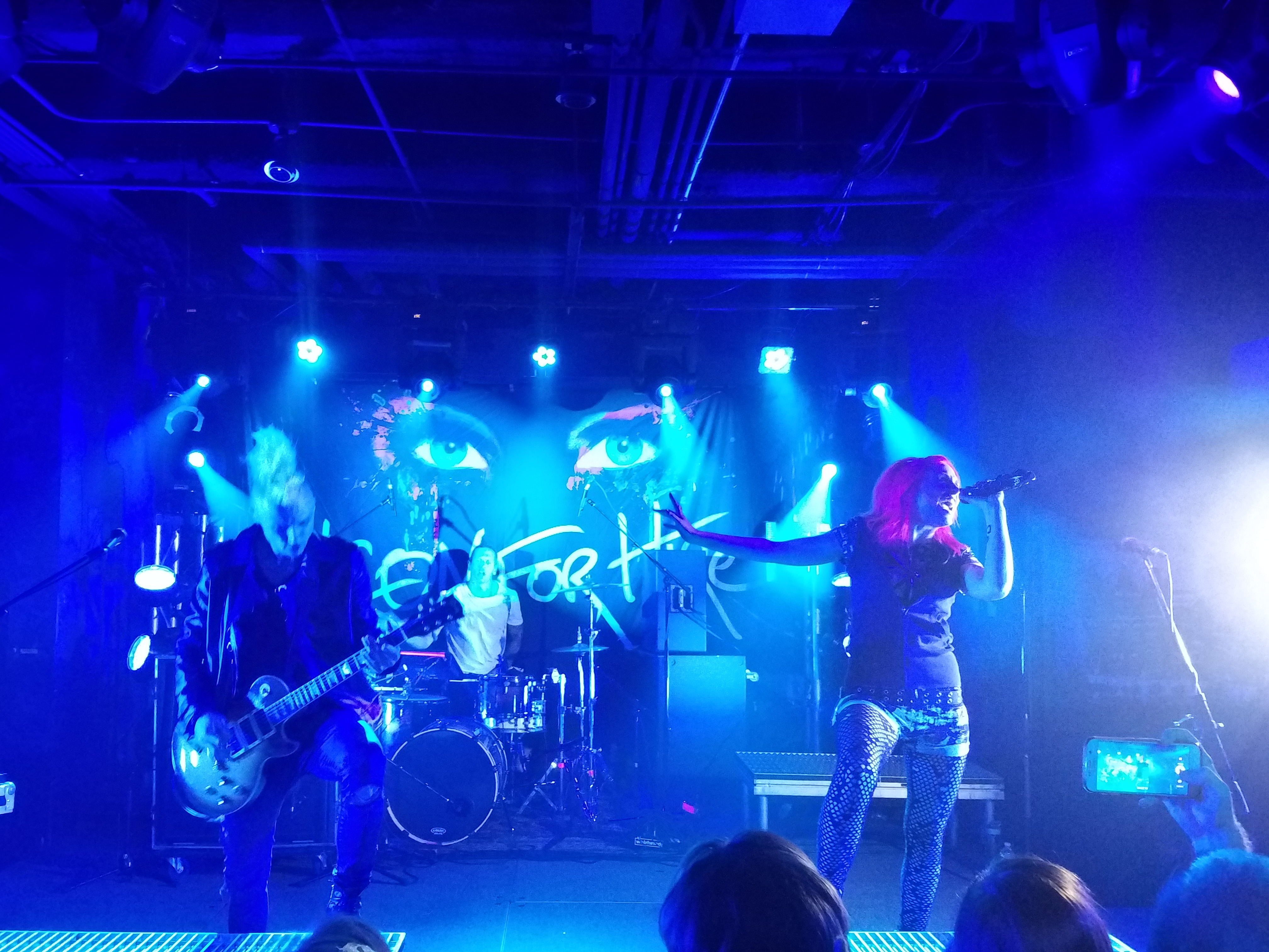 Icon for Hire performing in 2016